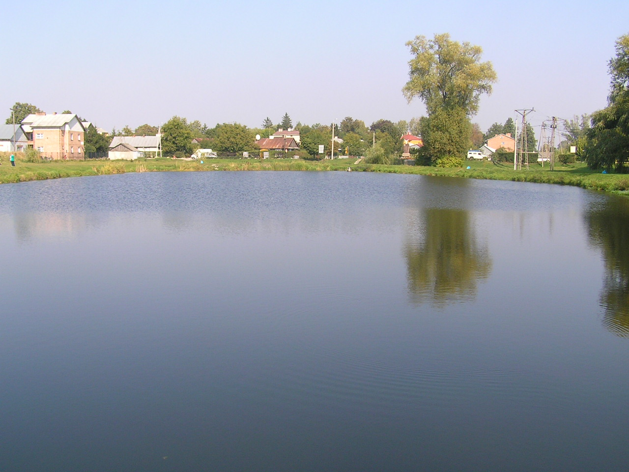 autor: Yarek shalom 07:51, 11 October 2006 (UTC)yarek shalom